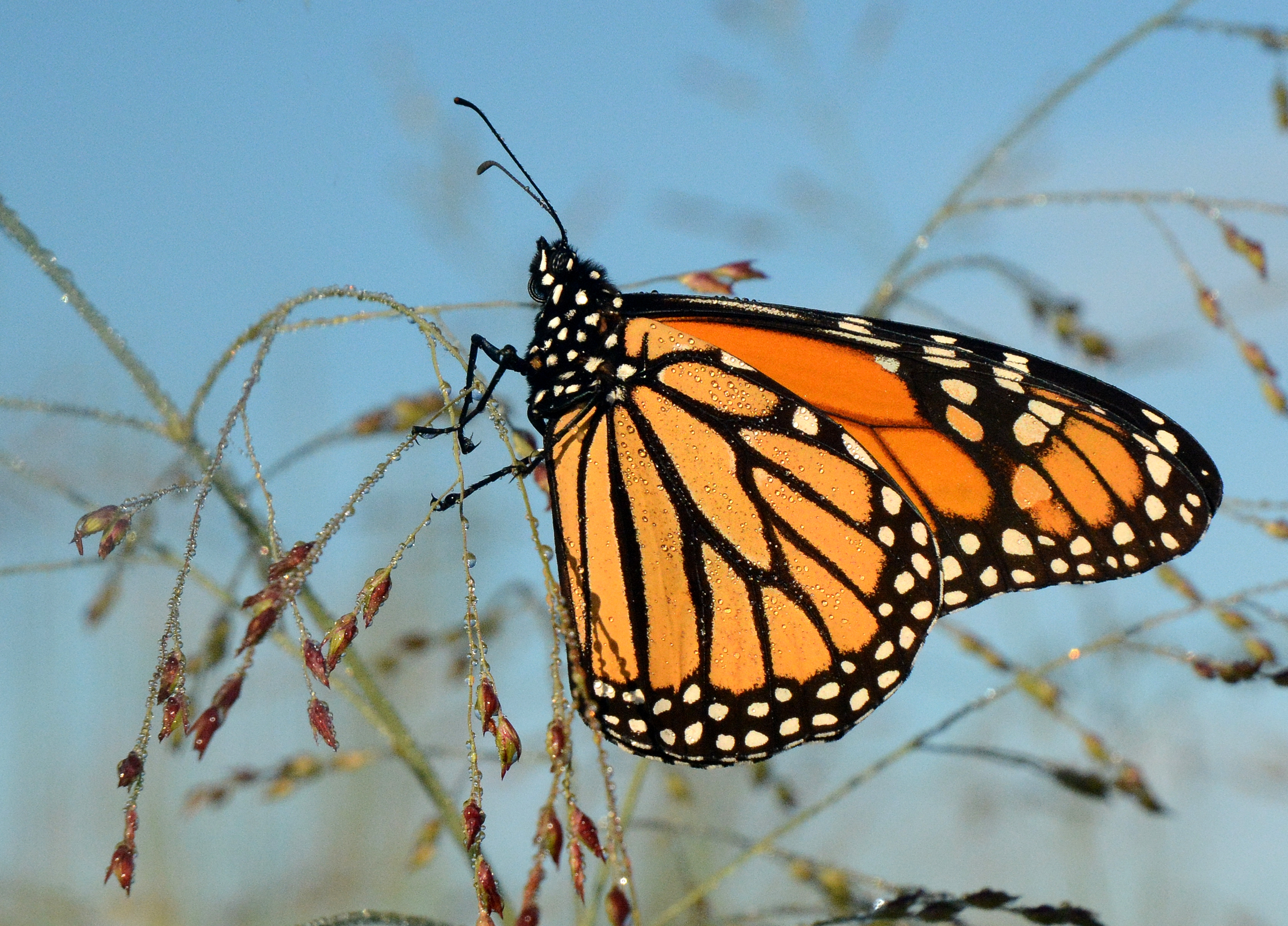 Monarch butterfly on switchgrass in Malan Waterfowl Production Area in Michigan. Photo by Jim Hudgins/USFWS